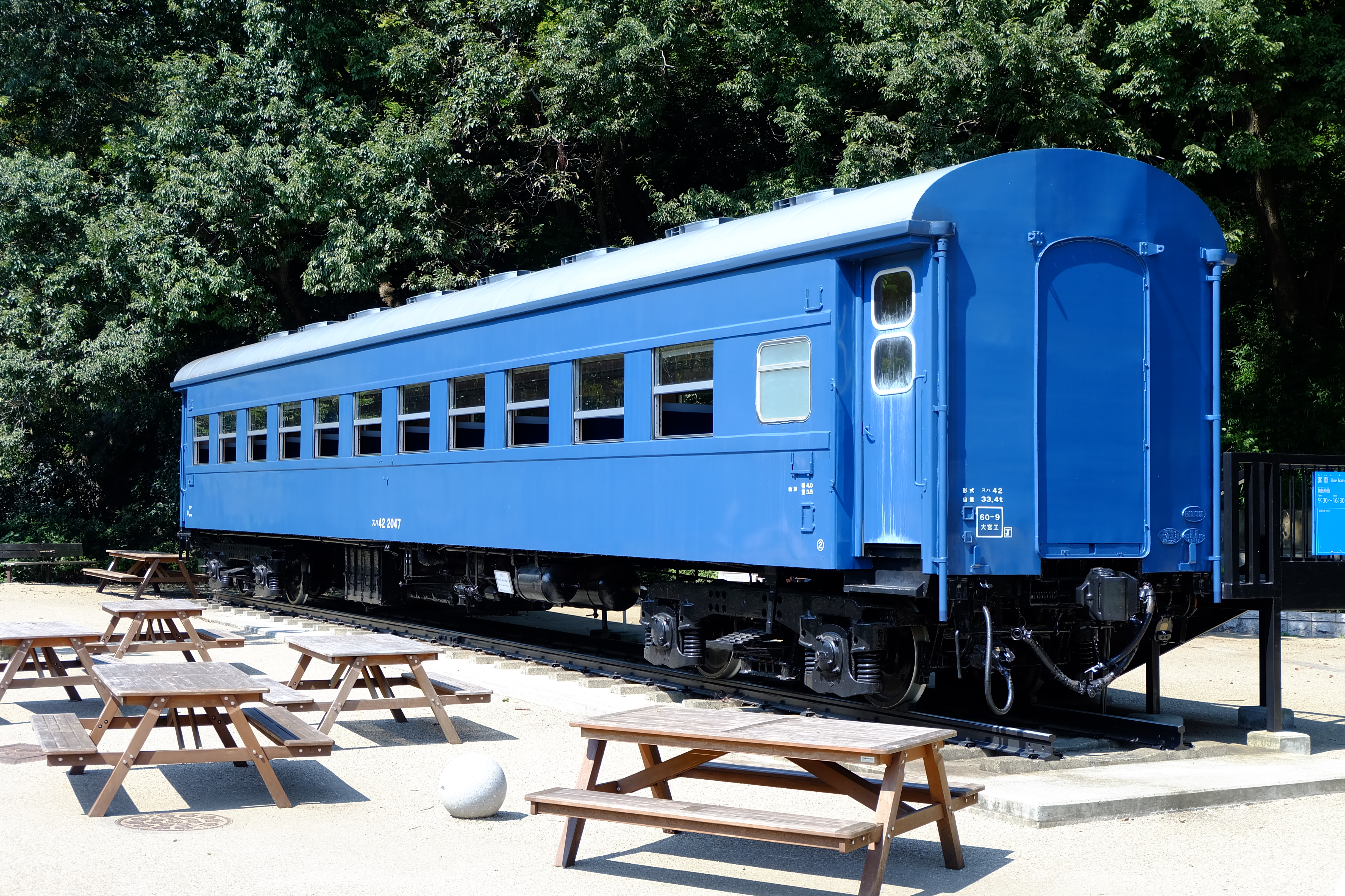 JNR Passenger car SUHA42 2047 in Ikuta Ryokuchi(KAWASAKI JAPAN)